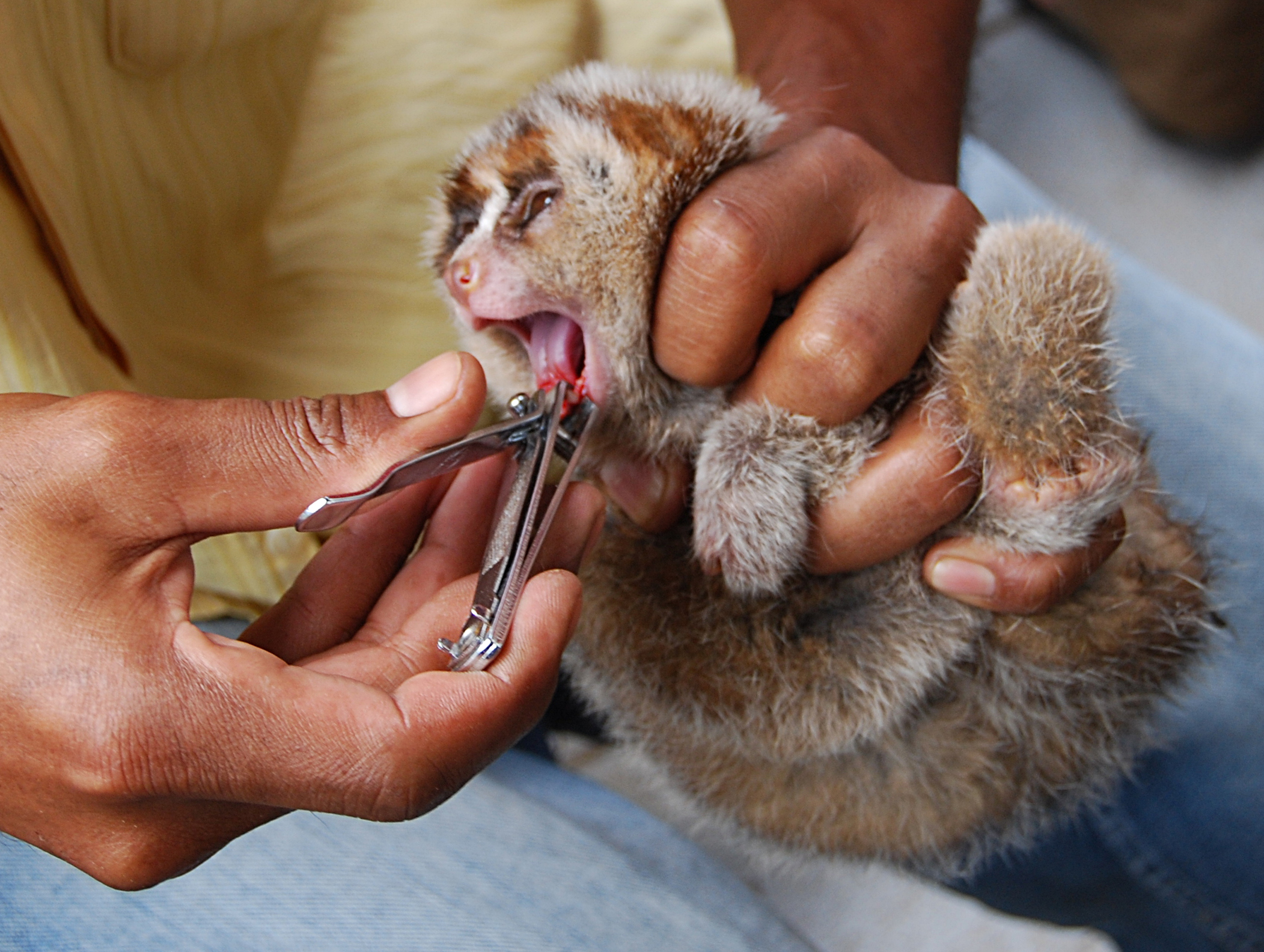 Slow lorises like this Sunda Slow Loris juvenile (Nycticebus coucang) have their teeth forcibly removed by animal traffickers in the open-air "bird markets" of Indonesia. The slow loris is the world's only venomous primate. Its venom is stored in an elbow patch: the loris will suck in the venom from the patch, then mix it around in its mouth before delivering a toxic bite. So, when illegal traders catch them and sell them on, they usually remove the teeth with wire cutters or toenail clippers, which after leads to infection or even death. This photo was taken by Dr. Karmele Llano Sánchez of the International Animal Rescue (IAR).